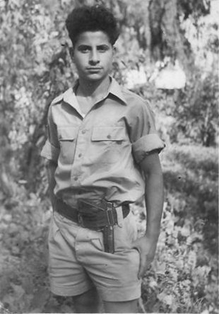 Author and holocaust survivor Beni Virtzberg in Palmach service.